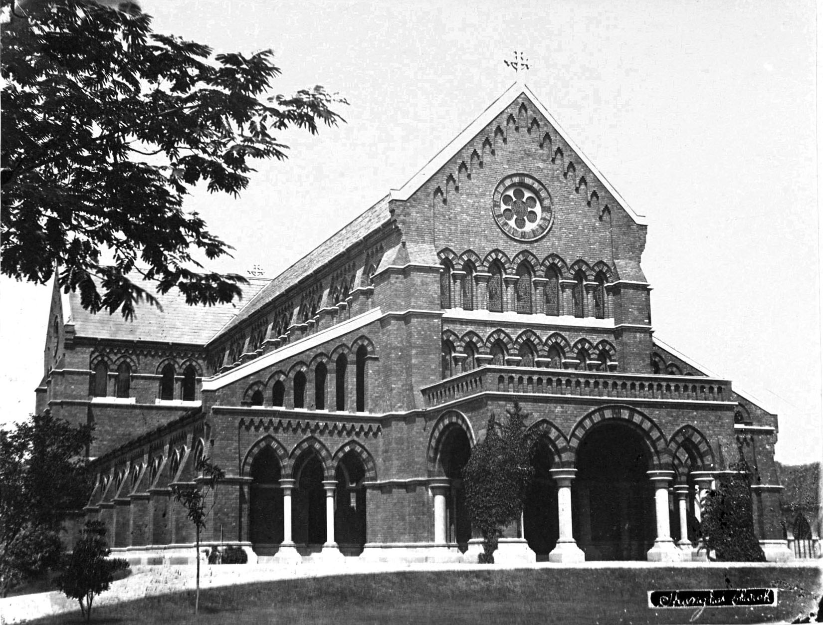 Photograph in From Afong, Photographer.